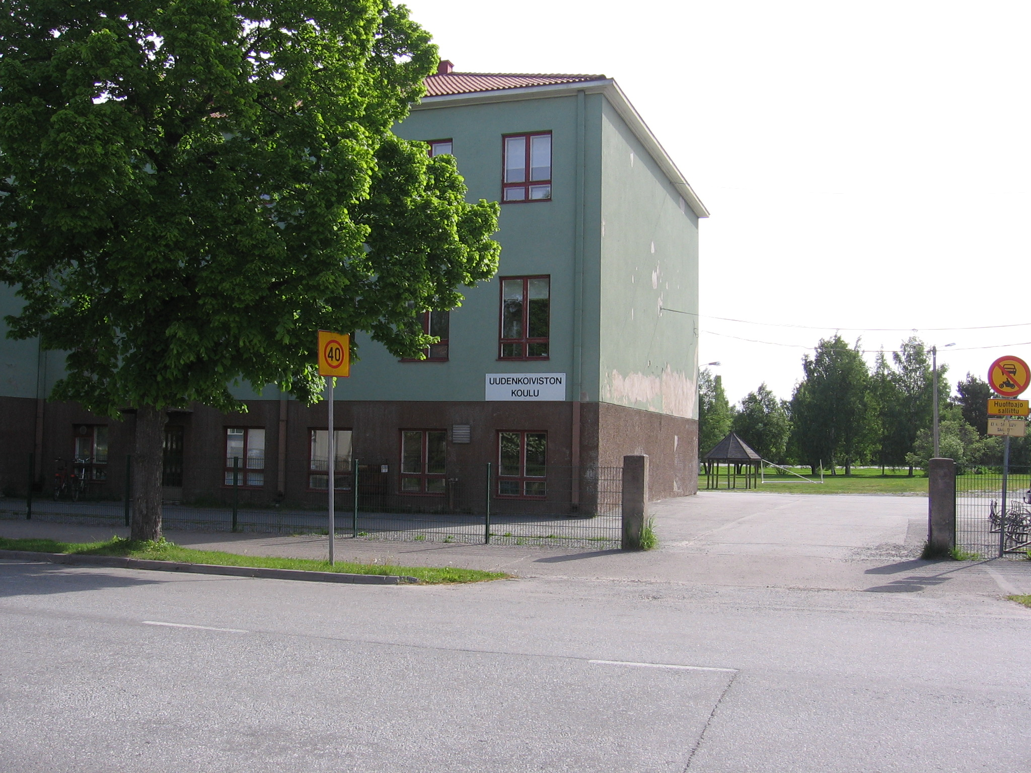 Uusikoivisto School